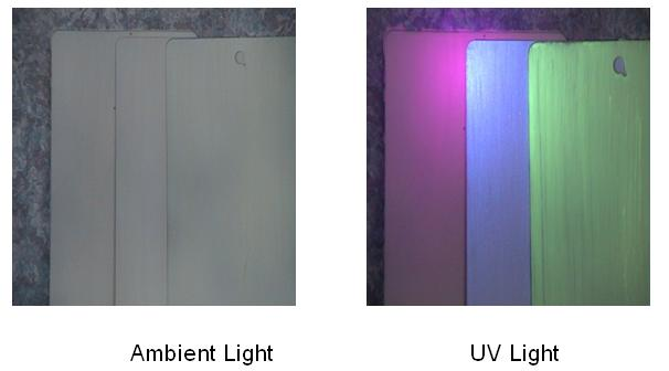 Panels coated with paints containing Optically Active Additives viewed under ambient light and ultra violet light.